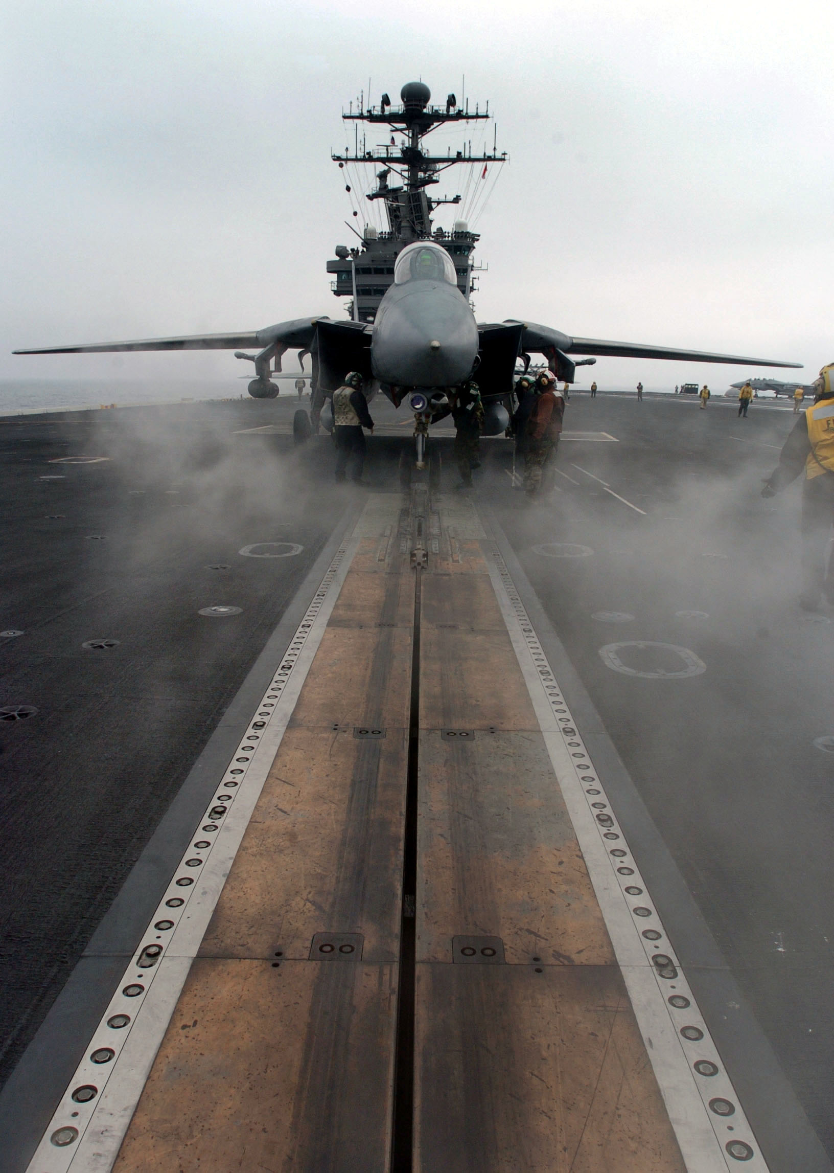 A U.S. Navy Grumman F-14D Tomcat assigned to the "Tomcatters" of Fighter Squadron 31 (VF-31) sits poised for launch on one of four steam-powered catapults aboard the nuclear powered aircraft carrier USS John C. Stennis (CVN-74). Stennis and her embarked Carrier Air Wing 14 (CVW-14) were at sea conducting training exercises.